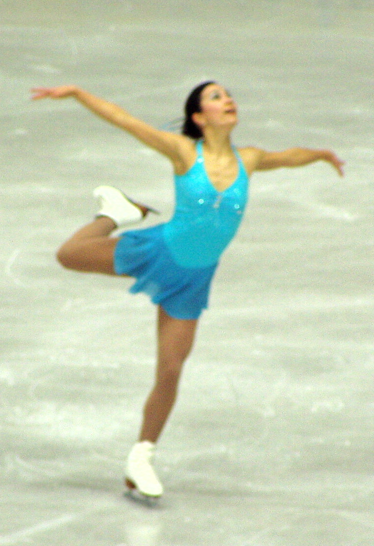 Susanna Pöykiö at the qualifacation at the world championships 2004 in Dortmund